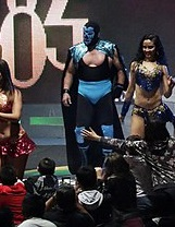 Viernes 30 de noviembre de 2018Arena México, ceremonia de develación de la placa conmemorativa por el reciente decreto de la Lucha Libre como Patrimonio Cultural Intangible de la Ciudad de México, estuvieron presentes autoridades del Consejo Mundial de Lucha Libre, y autoridades del gobierno de la CMDX, entre ellos Gabriela López Torres, coordinadora de Patrimonio Histórico Artístico y Cultural de la Secretaría de Cultura de la CDMX, además de invitados especiales.Fotografía: Tania Victoria/ Secretaría de Cultura CDMX